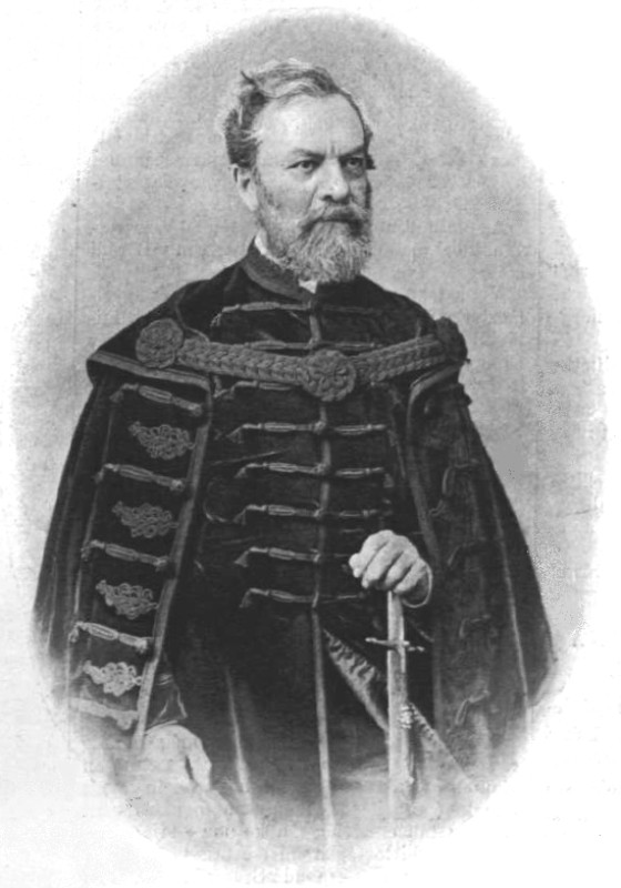 Ferenc Házmán (Haszman) (1810–1894) the last mayor of the city Buda before creating the new metropolis of Budapest in 1873.